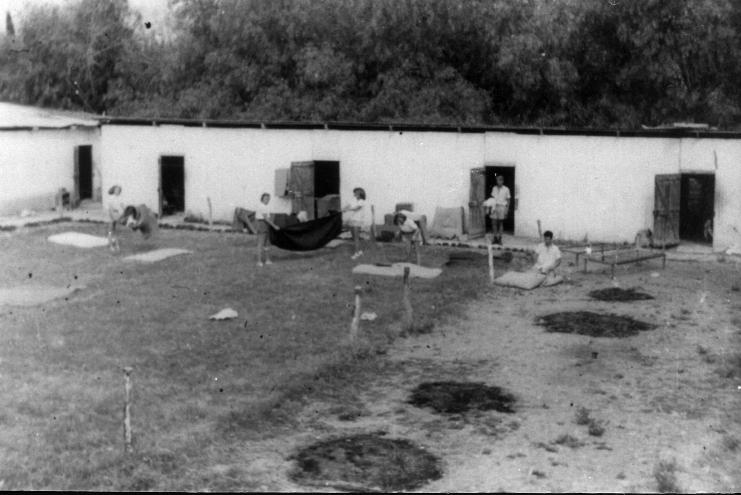 Ashdot Ya'acov, 1947